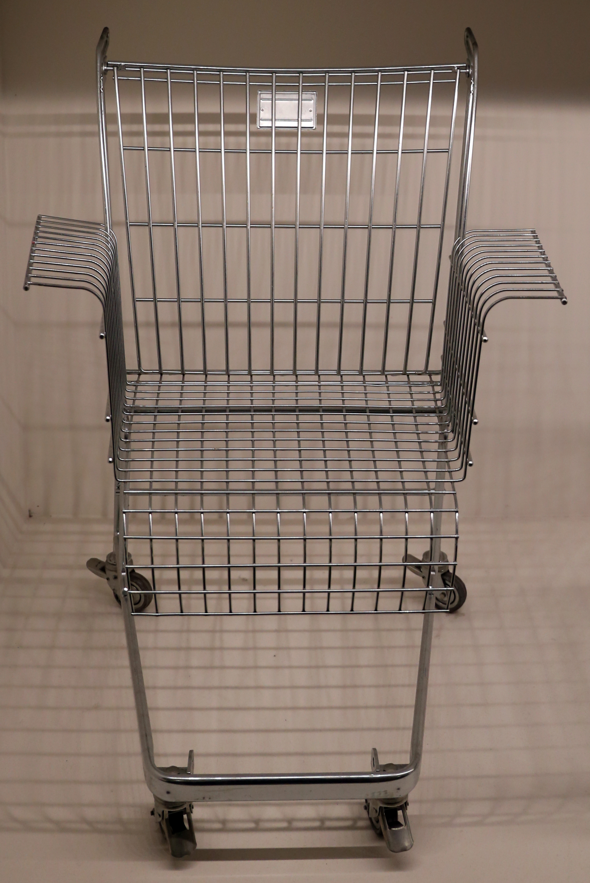 Furniture in the Kunstgewerbemuseum Berlin